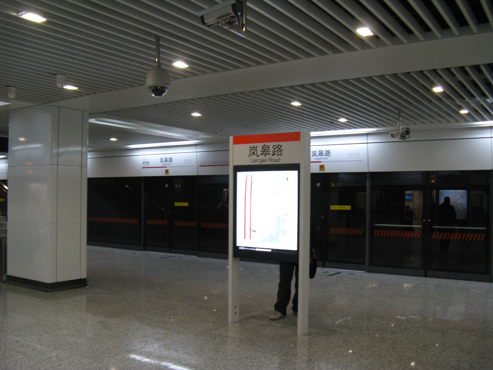 Langao Road Station Line7 Shanghai Metro